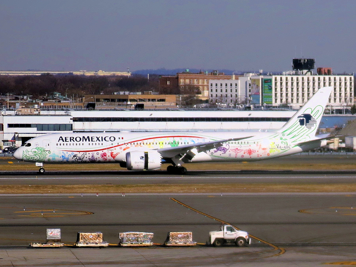 An Aeroméxico Boeing 787-9 Dreamliner is deploying its thrust reversers after landing at John F. Kennedy International Airport in New York City.